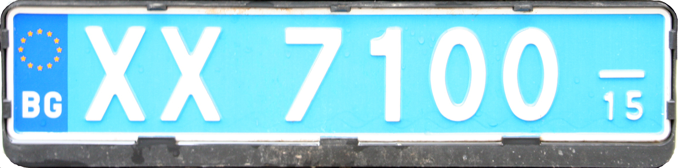 Temporary license plate, Bulgaria.